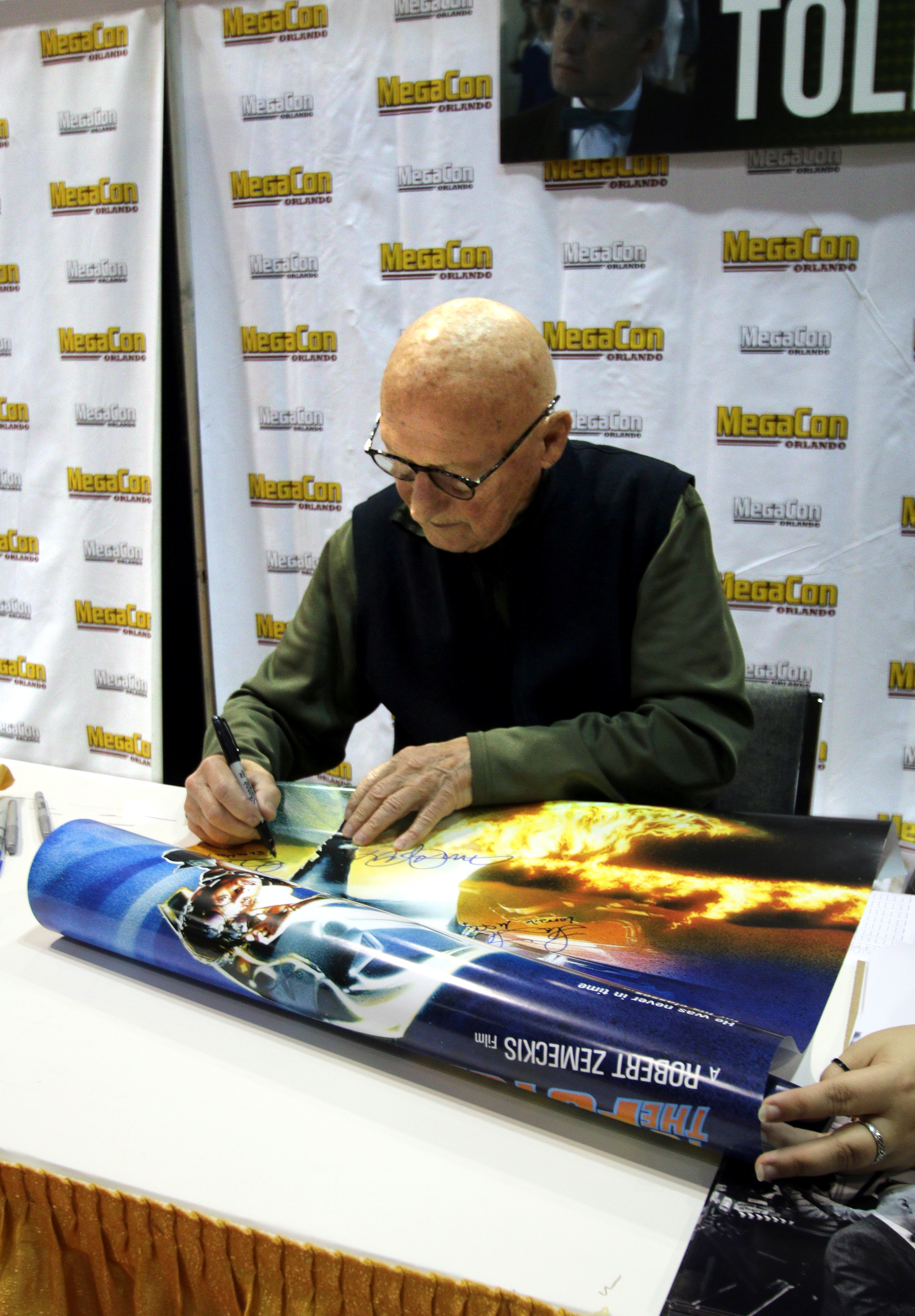 James Tolkan signing a Back to the Future poster at MegaCon Orlando 2019